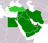 Derived from Image:Map-World-Middle-East.png.